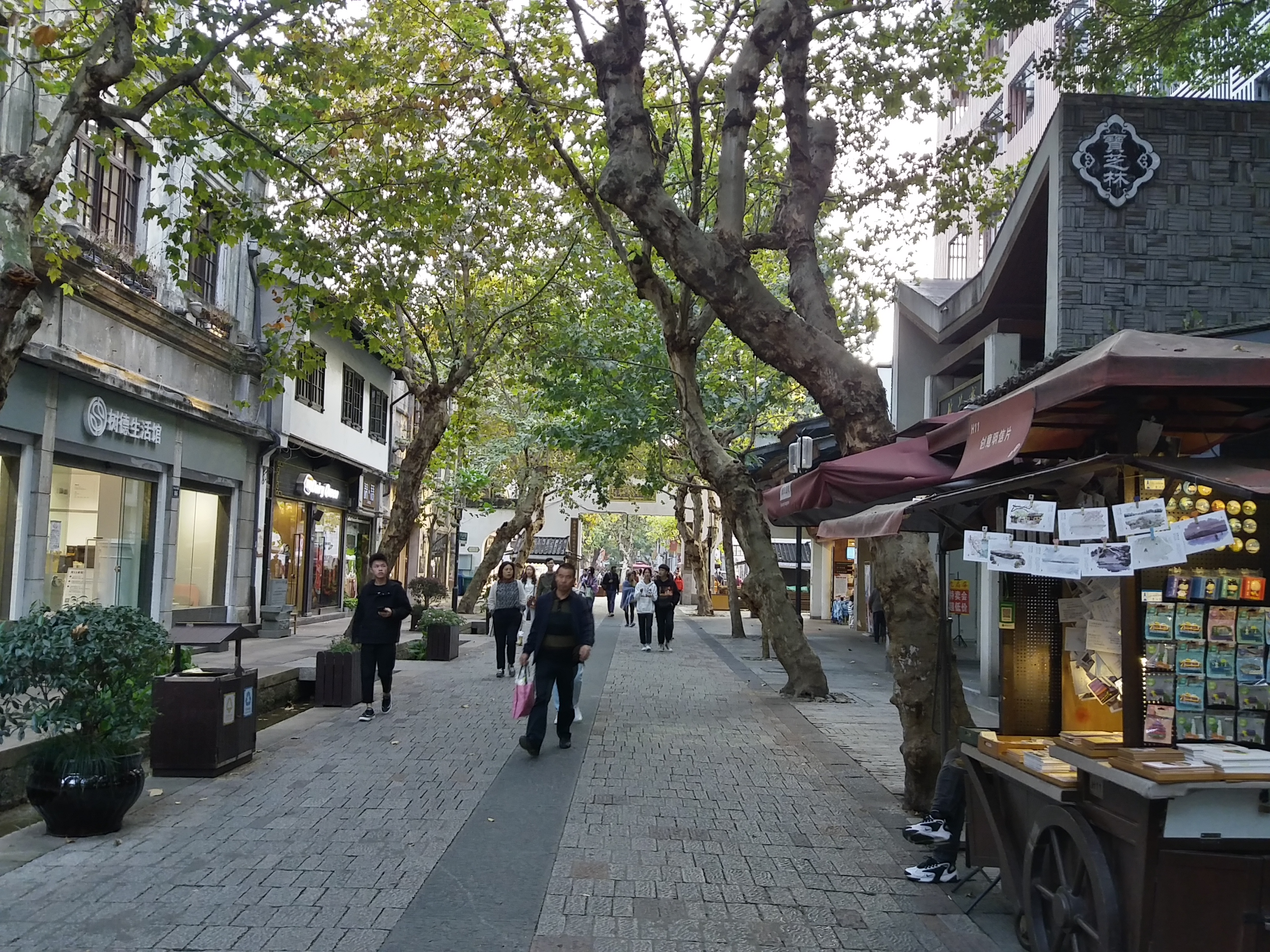 Southern Song Imperial Street, Hangzhou